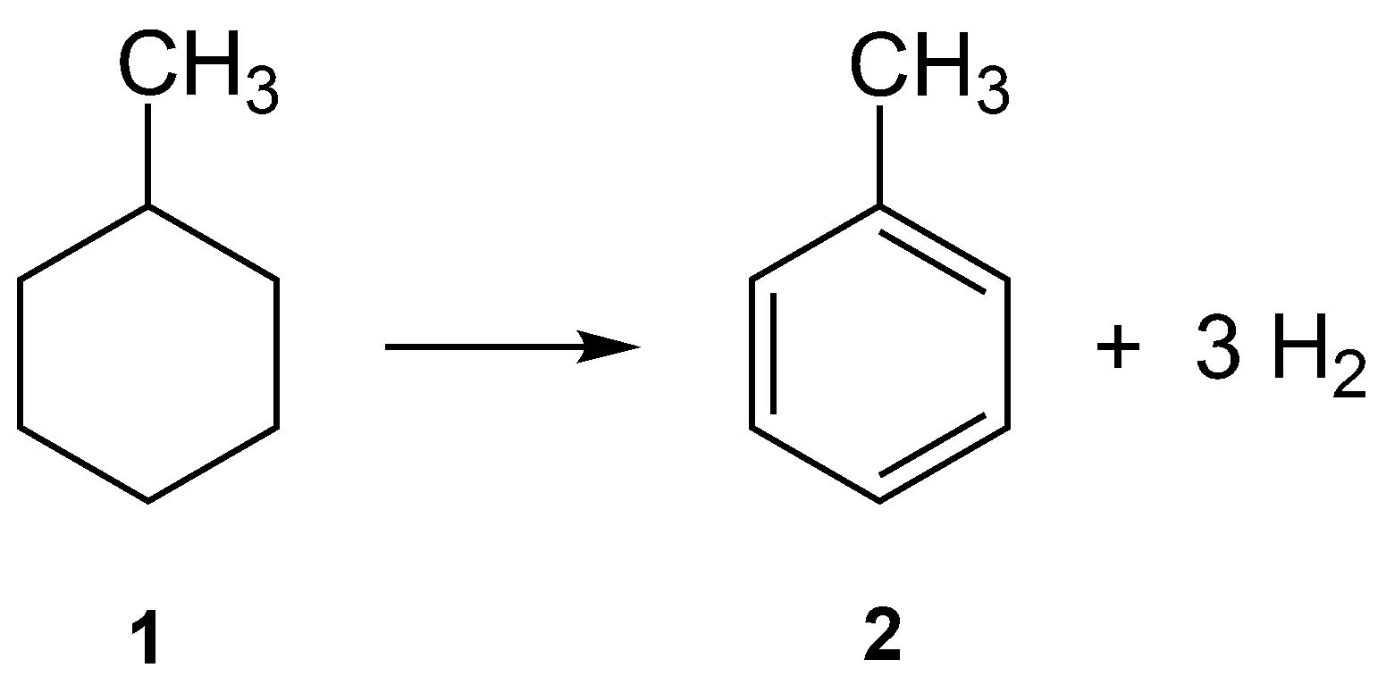 An example of the dehydrogenation reaction that occurs in the catalytic reforming process used in oil refineries. Methylcyclohexane (1); Toluene (2)